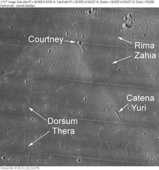 Moon crater Courtney with nearby features. Detail from Lunar Orbiter IV-133H. High resolution scans from the USGS Lunar Orbiter Digitization Project remapped to a north-up aerial view by LTVT.